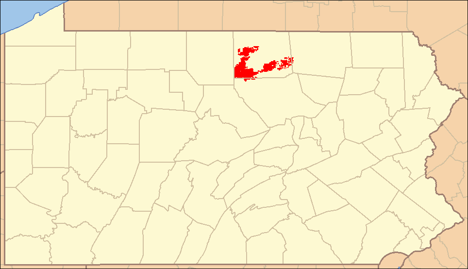 Locator Map of Tioga State Forest, Pennsylvania, United States